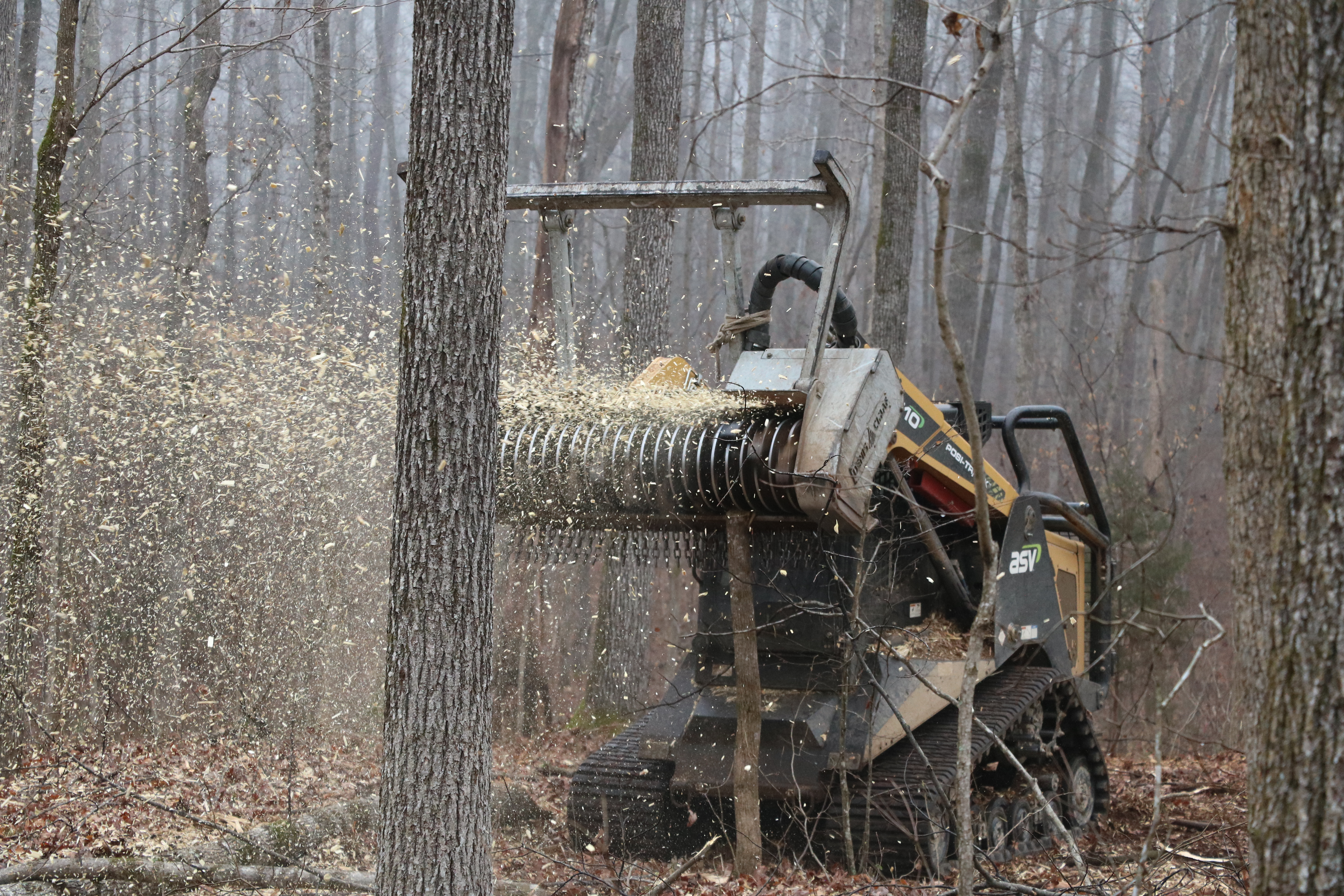 A mulching attachment paired with a forestry package CTL